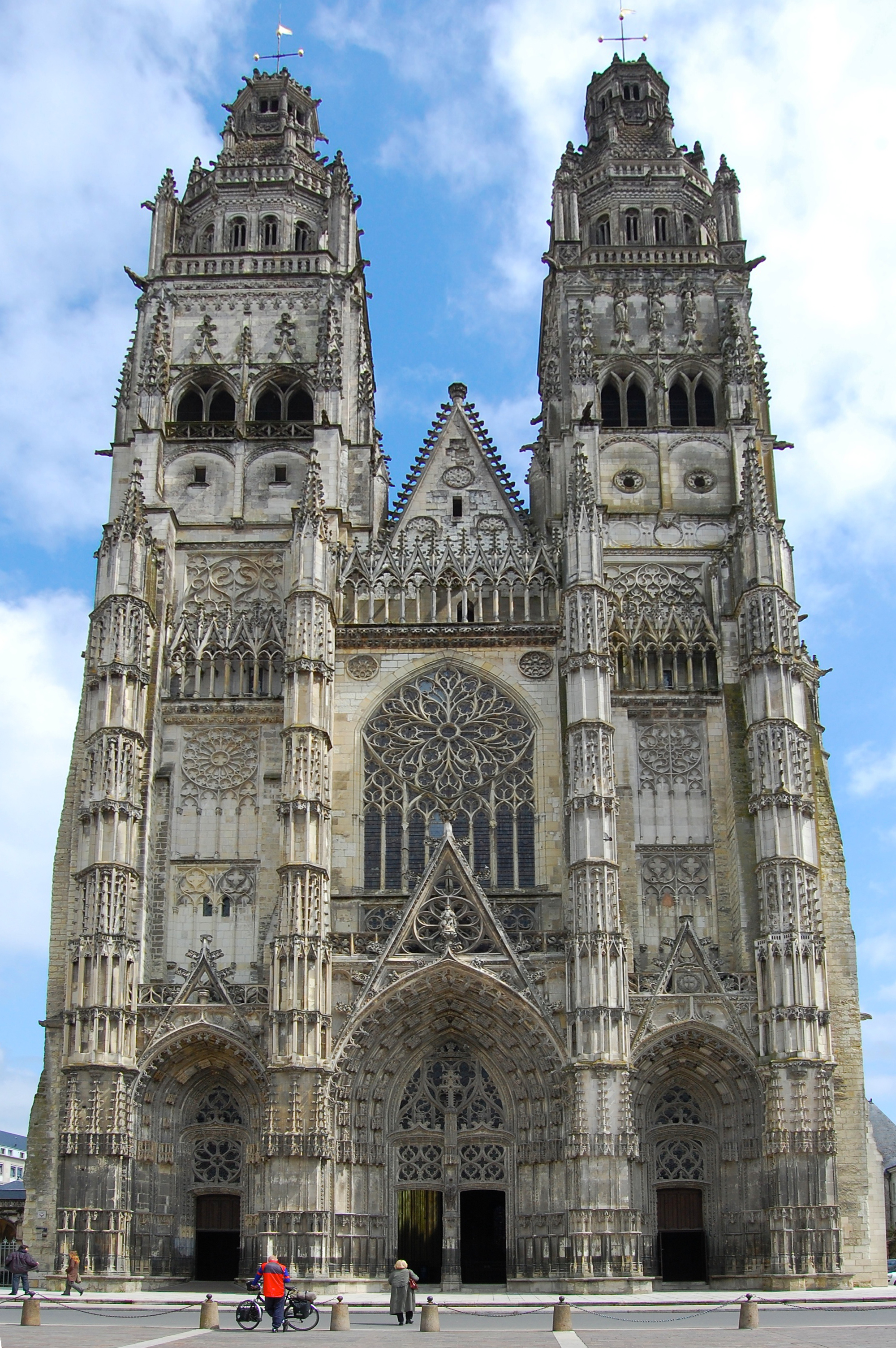 Cathedral of Saint-Gatian in Tours (France).